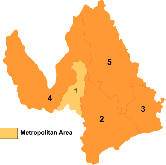 Map of Lijiang in Yunnan Province